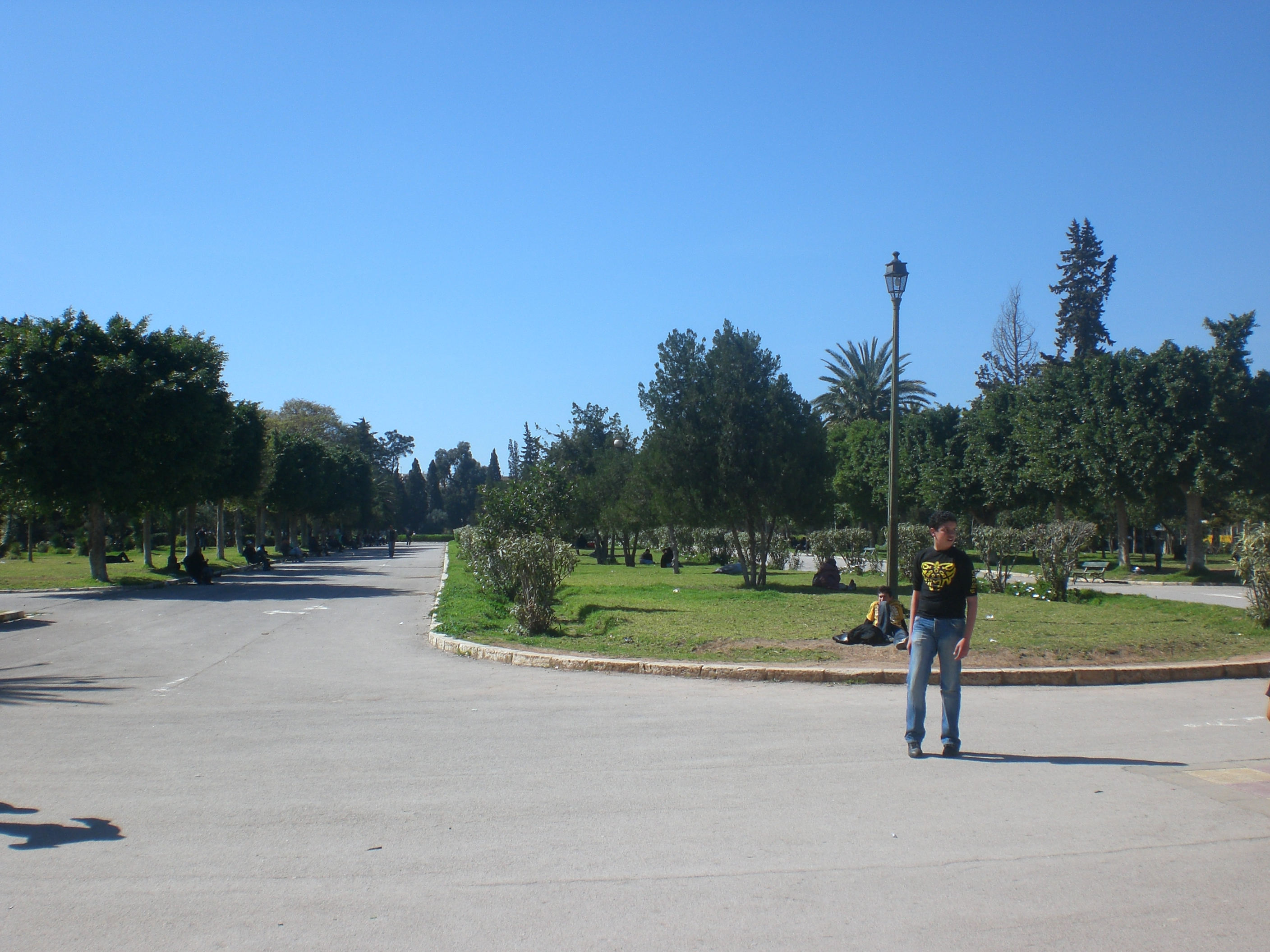 Habib Thameur Parc in Tunis